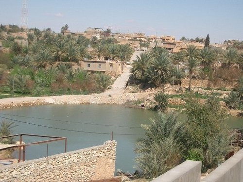 CITY OF RAWA IN IRAQ